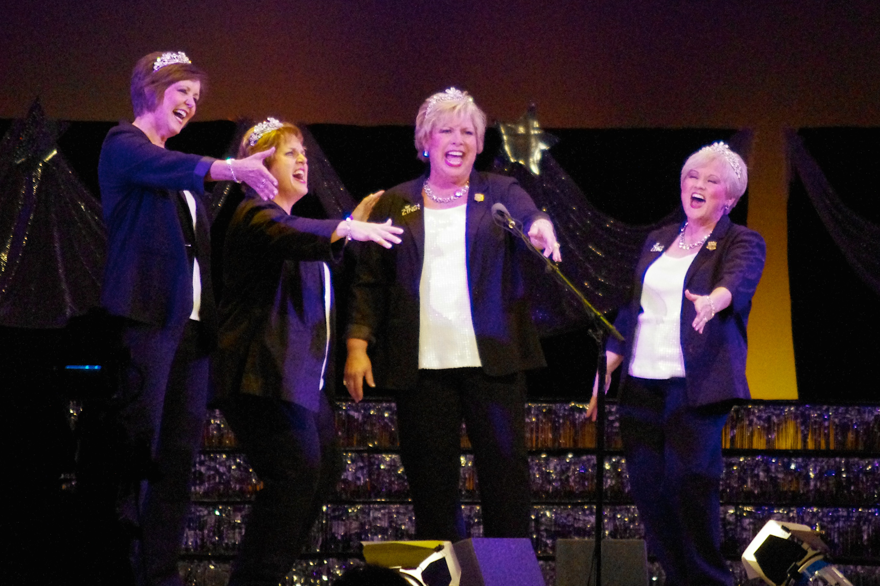 Zing quartet performing at the 2011 Sweet Adelines International "coronet club show" in Houston, Texas